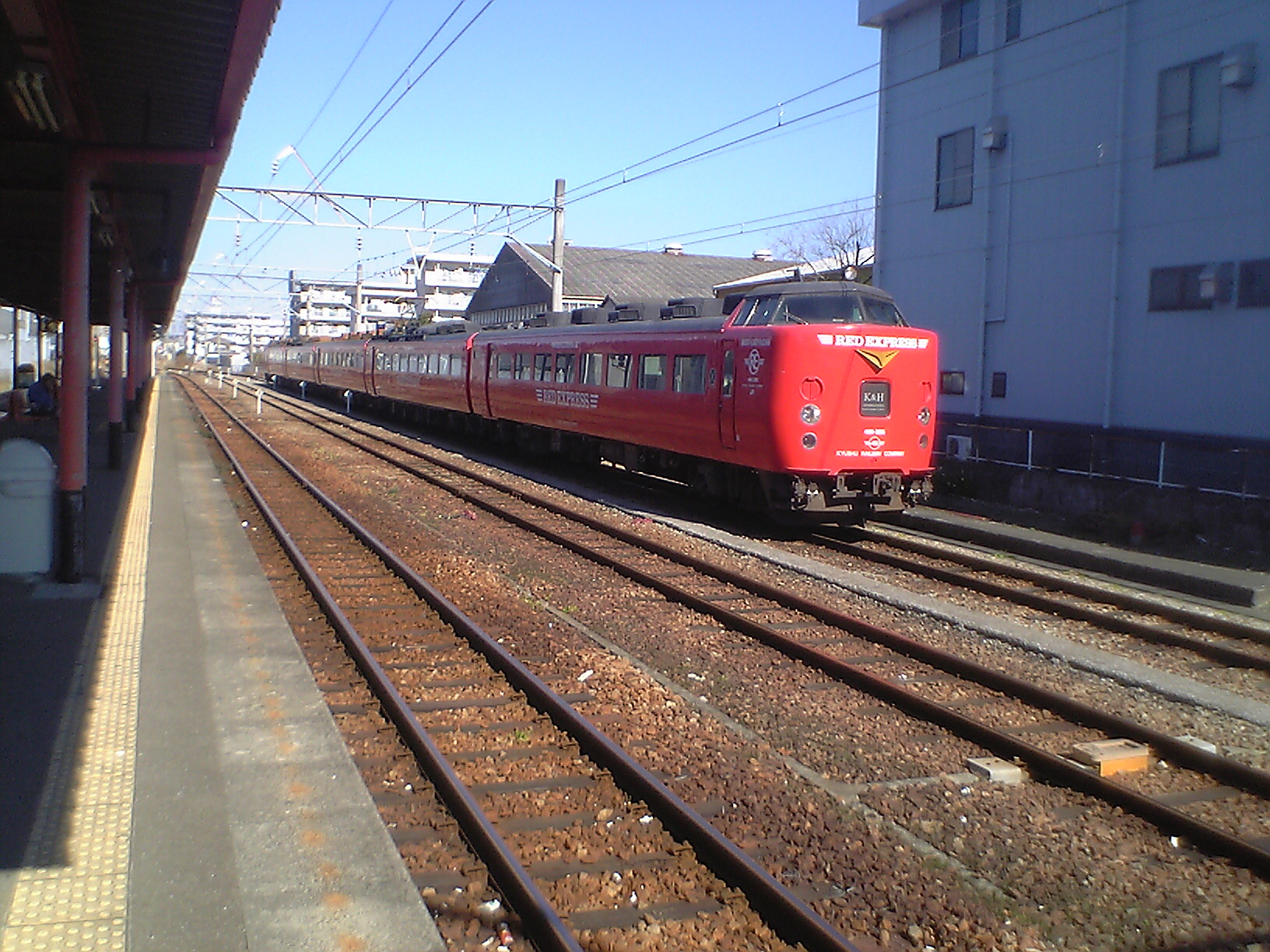 Side tracks at Miyazaki-Jingu Station